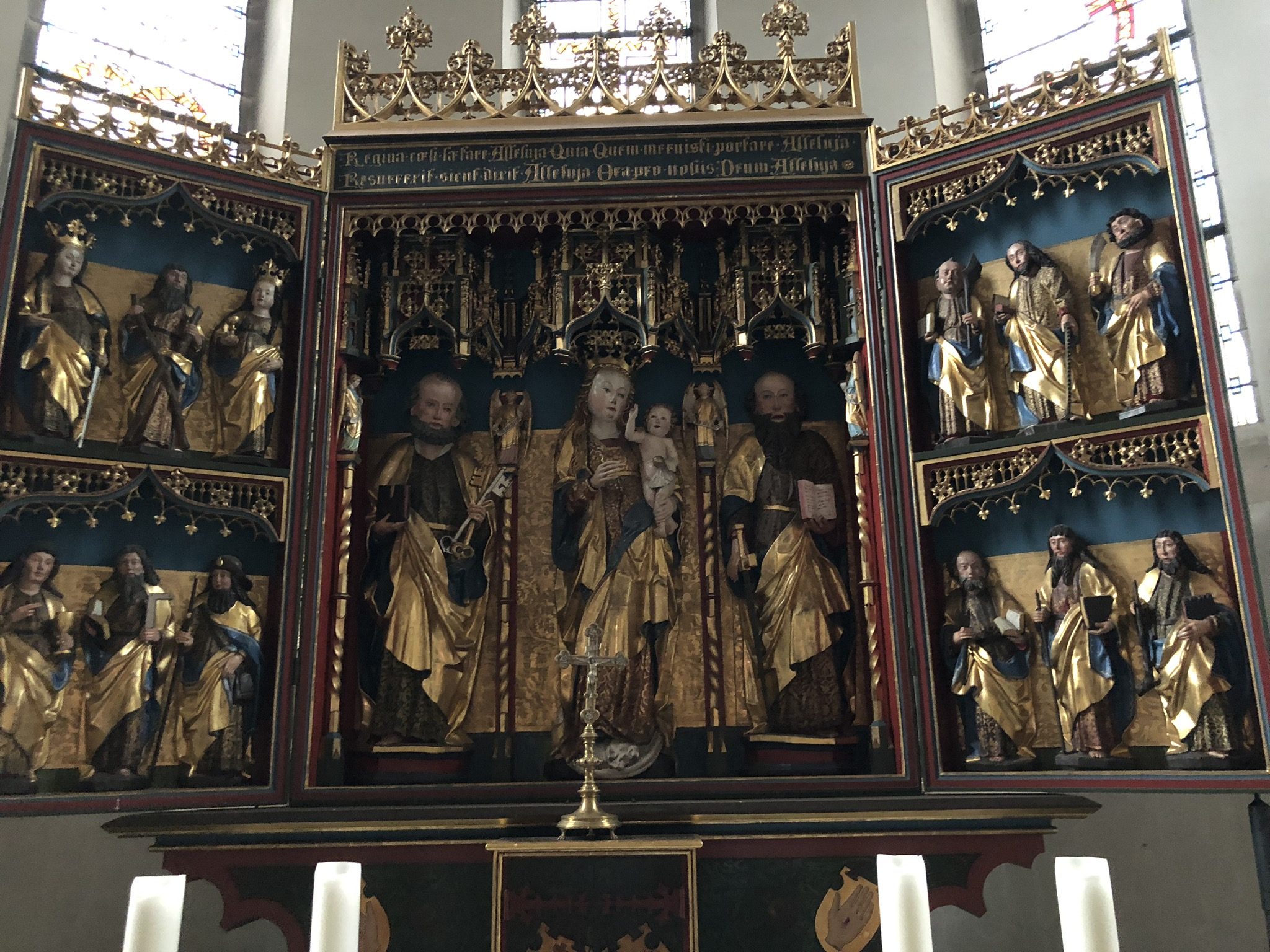 Altar from Mechernich-Roggendorf